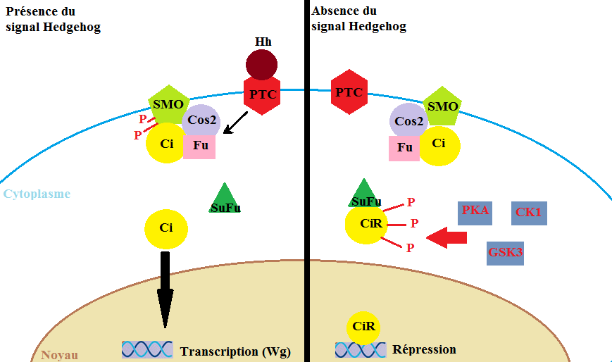 La voie de signalisation dans les cellules postérieures pour l'expression ou la répression du gène Wingless lorsqu'il y a la présence ou l'absence du signal Hedgehog durant l'embryogénèse de la drosophile